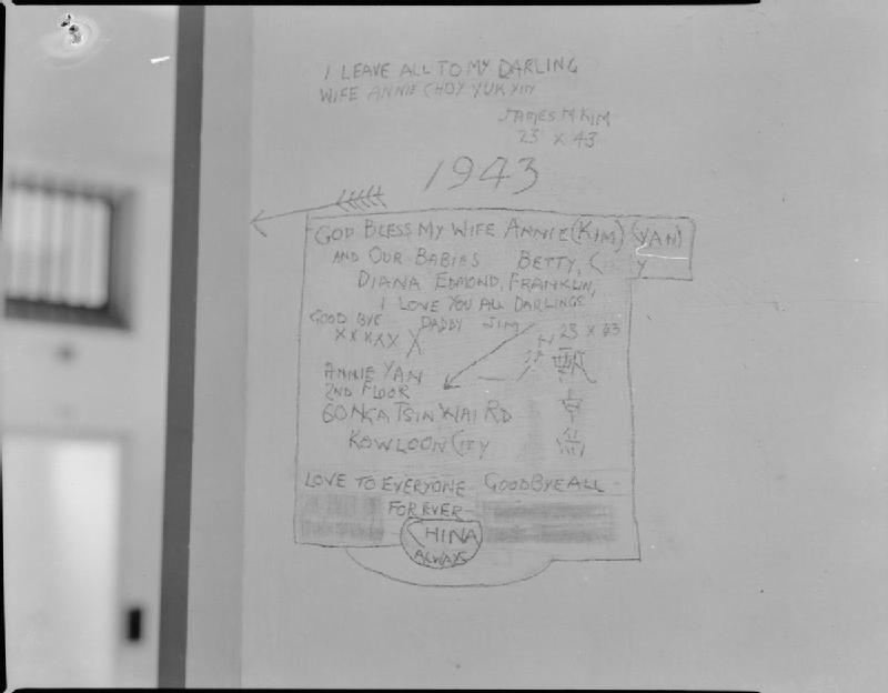 The last will and messages of James M Kim, a British Chinese member of the Hong Kong Defence Forces at Stanley Civil Internment Camp, Hong Kong inscribed on his cell wall as a record. - the reason for his execution is unknown. Note that owing to efforts made by the Japanese to erase these messages parts of them are indecipherable.